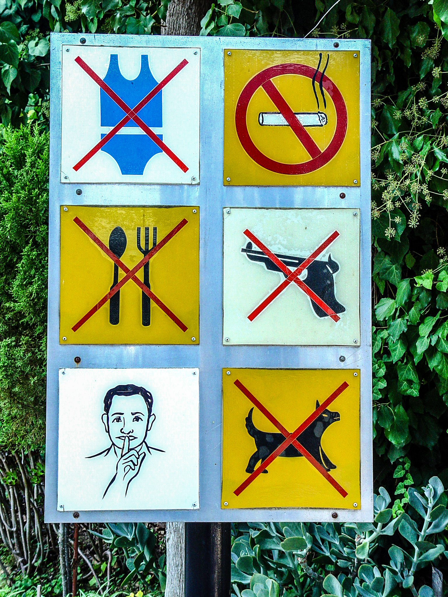 Ideogram in the Church of the Visitation, Jerusalem